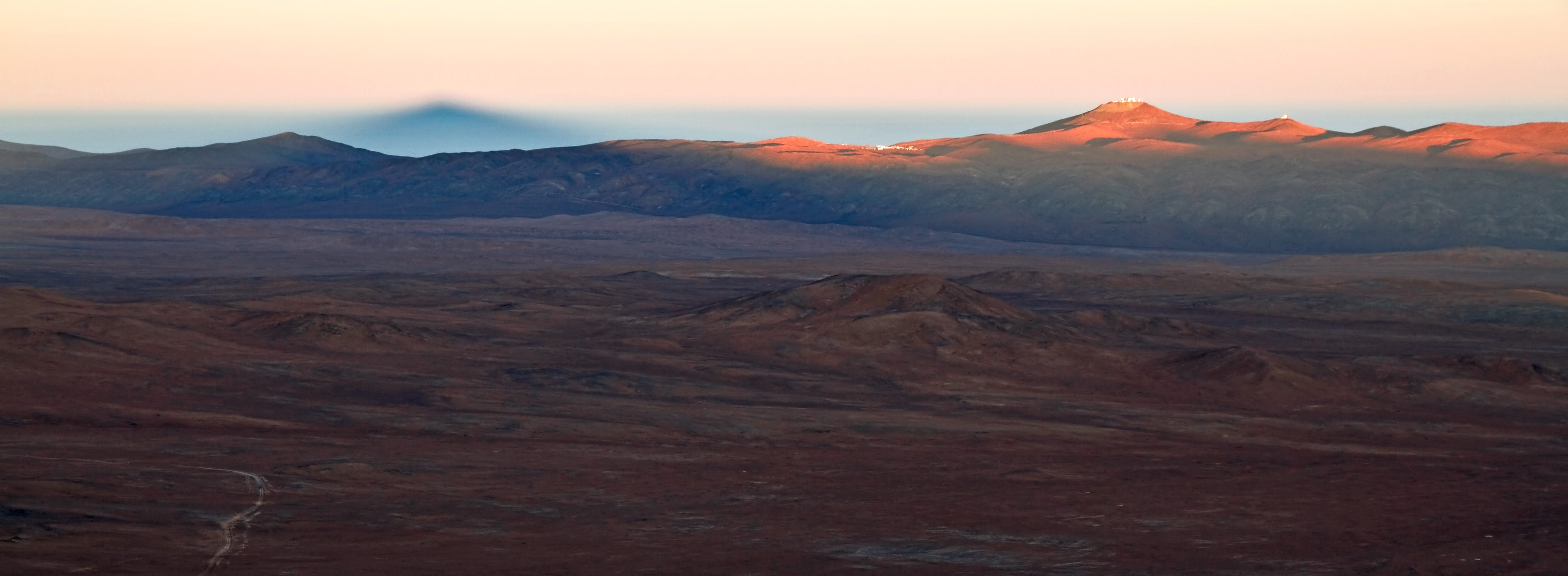 The Atacama Desert, and Sierra Vicuña Mackenna (mountain range) of the the Cordillera de la Costa System (Chilean Coast Ranges), Chile. In this photograph, taken by ESO Photo Ambassador Gianluca Lombardi, the Sun is rising and bathing the Chilean Atacama Desert in a familiar soft reddish glow. But this image, from 13 July 2011, has also captured something out of the ordinary: a dark shadow lurking on the horizon. Gianluca took this photograph from Cerro Armazones, looking west. Armazones is the future home of the world’s biggest eye on the sky: the upcoming European Extremely Large Telescope (E-ELT). The Sun rose behind Gianluca in just the right place to cast a daunting shadow of the 3060-metre-high mountain onto the Earth’s atmosphere in the distance. The shadow can be seen reaching over the vast desert landscape, and up across the horizon on the left side of the image. The bright summit visible on the right of the image is Cerro Paranal, at an altitude of 2600 metres. It is only 20 kilometres from Cerro Armazones, and is the home of ESO’s Very Large Telescope. Both sites have exceptional astronomical observing conditions. To its right is the adjacent peak where the VISTA survey telescope is located and to its left, on the horizon, are the basecamp and Residencia of Paranal Observatory. The white road winding across the bottom-left corner of the photograph is the route to the summit of Cerro Armazones.